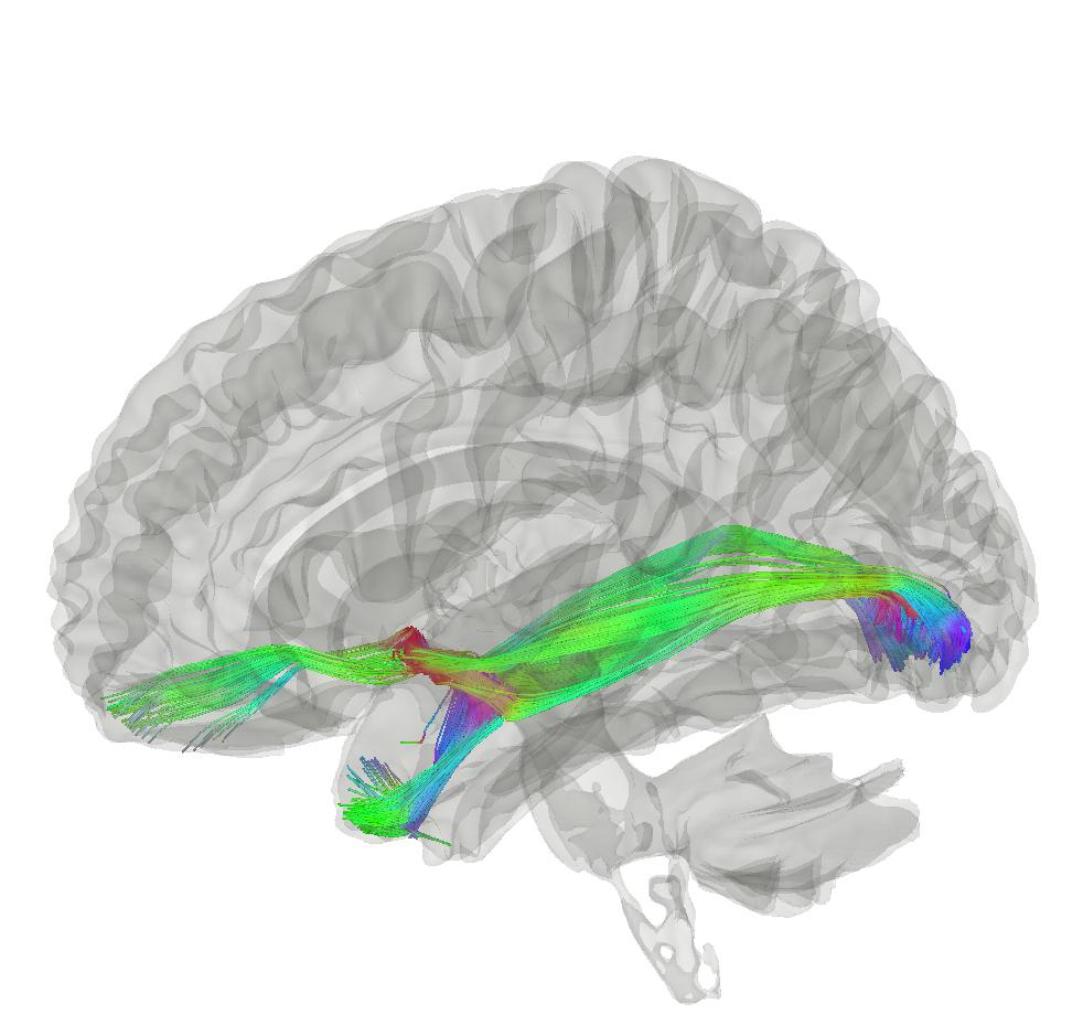 Tractography showing anterior commissure on a population-averaged template